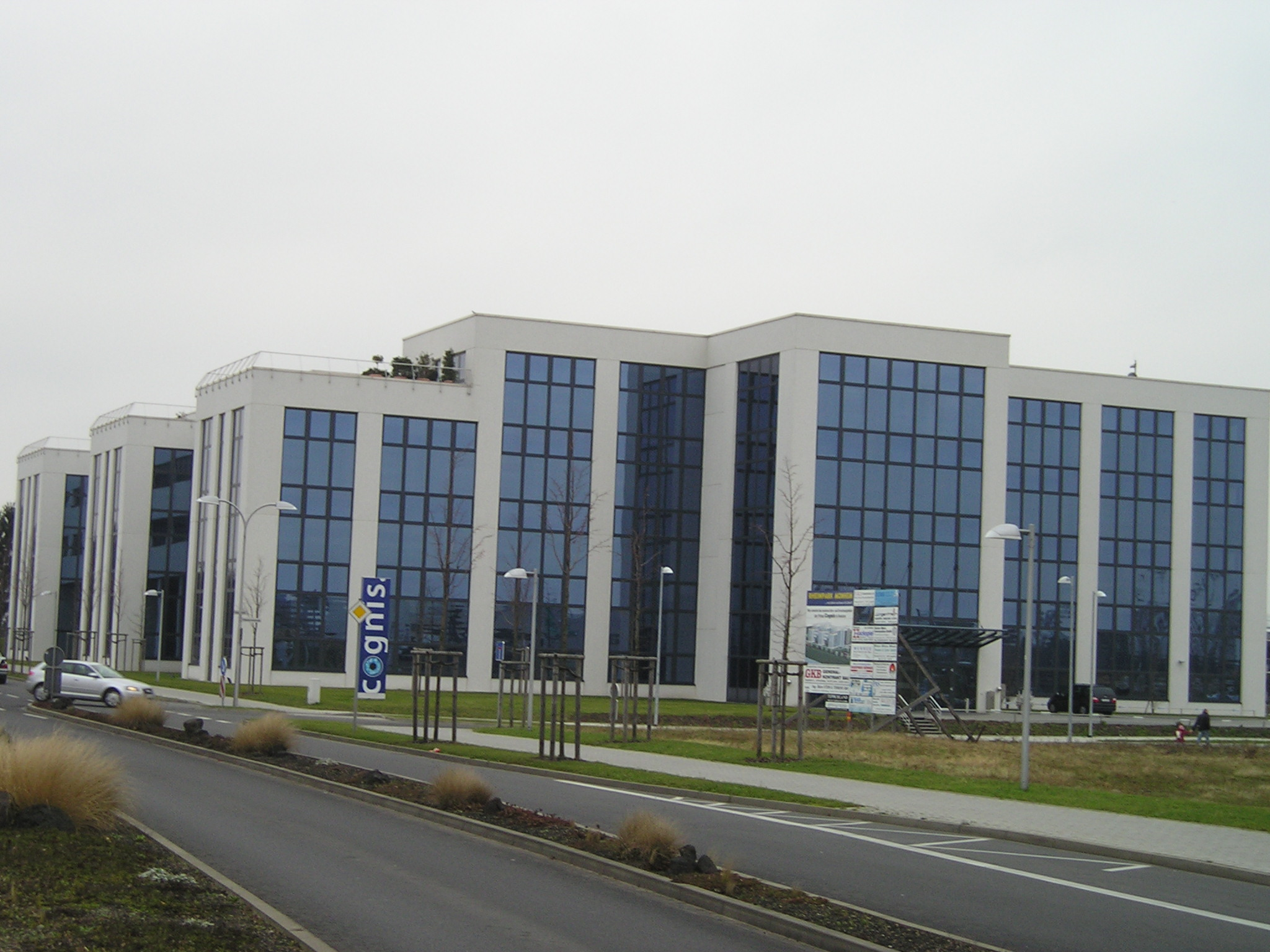 Building of the Cognis GmbH in Monheim am Rhein. This building now belongs to BASF Personal Care and Nutrition